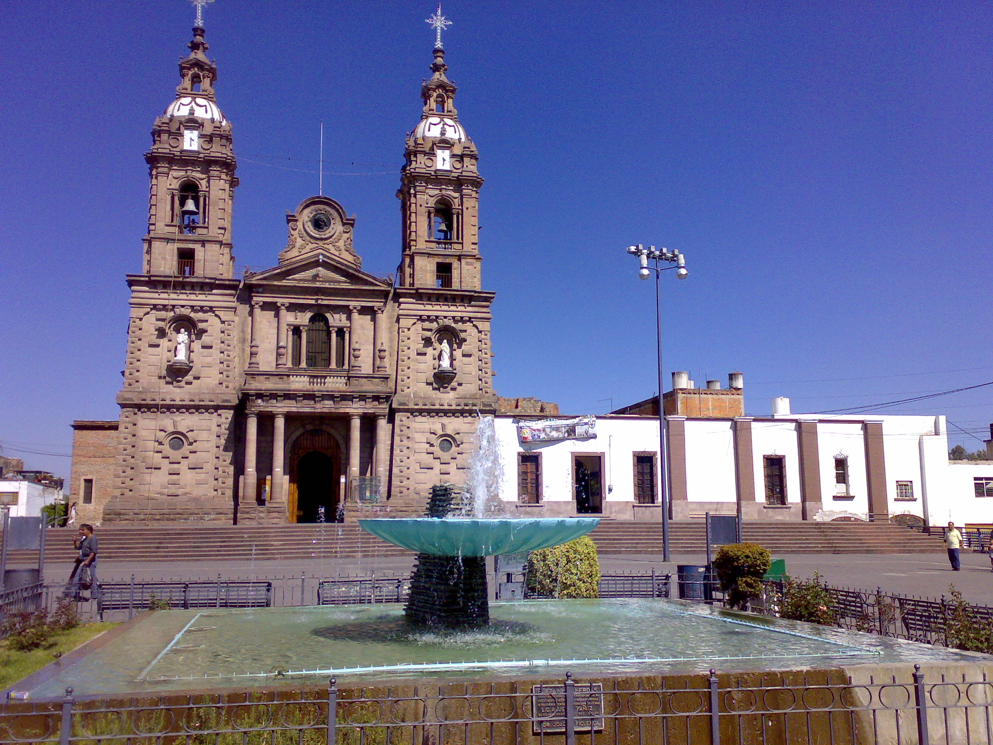 Main (I think) church in Ocotlán Jalisco